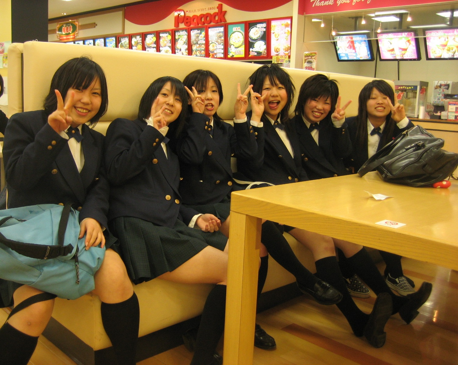 A picture of Japanese high school students from Fukushima Prefecture. Picture was taken with a Canon Power Shot SD450 Digital Elph camera.